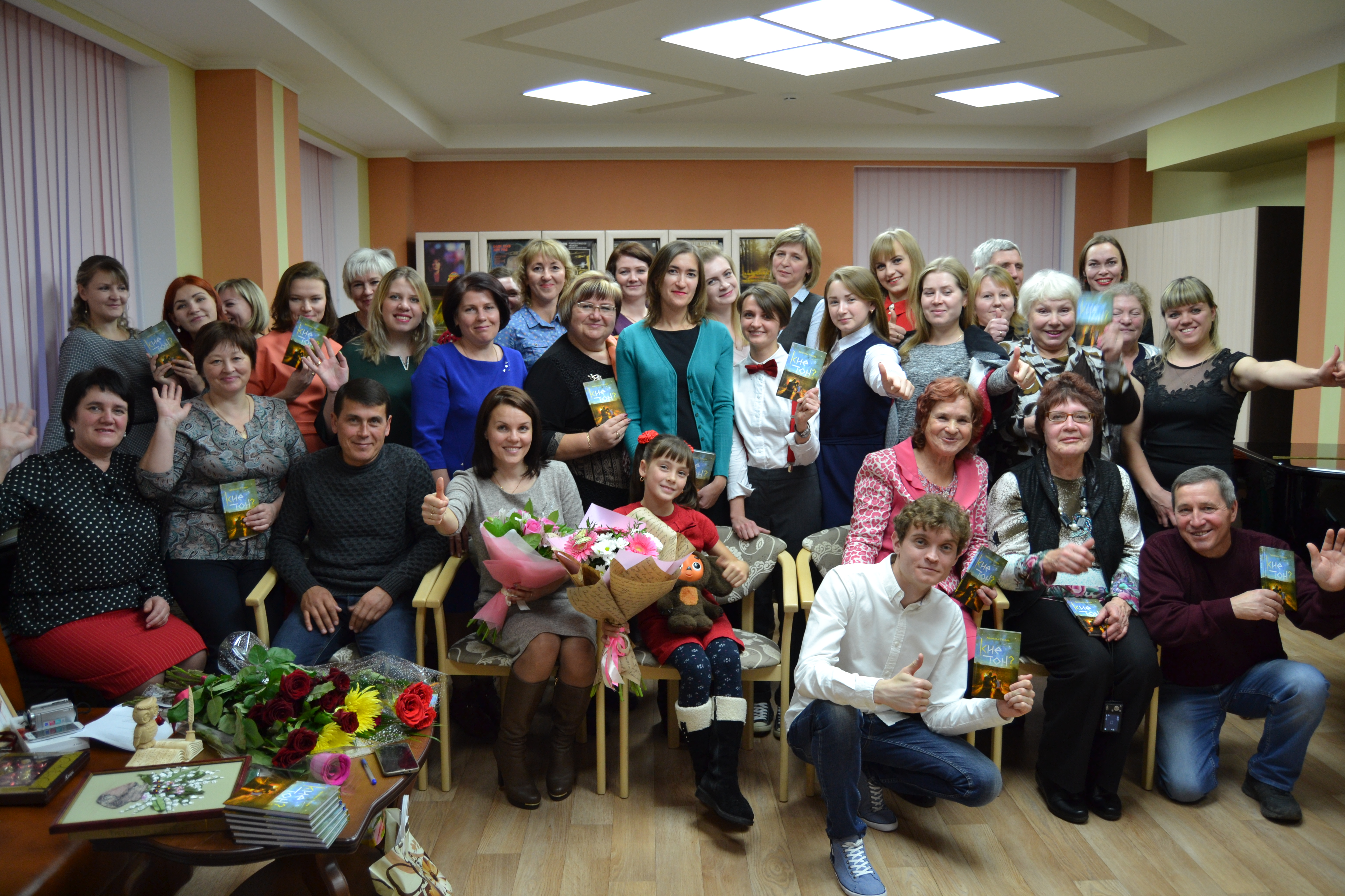 A joint photo at the presentation of the new collection of poems «Kiy ton?» («Who are you?») Of the Erzyan poetess Lyudmila Ryabova. Saransk, GBUK "National Pushkin Library of the Republic of Mordovia", October 25, 2017